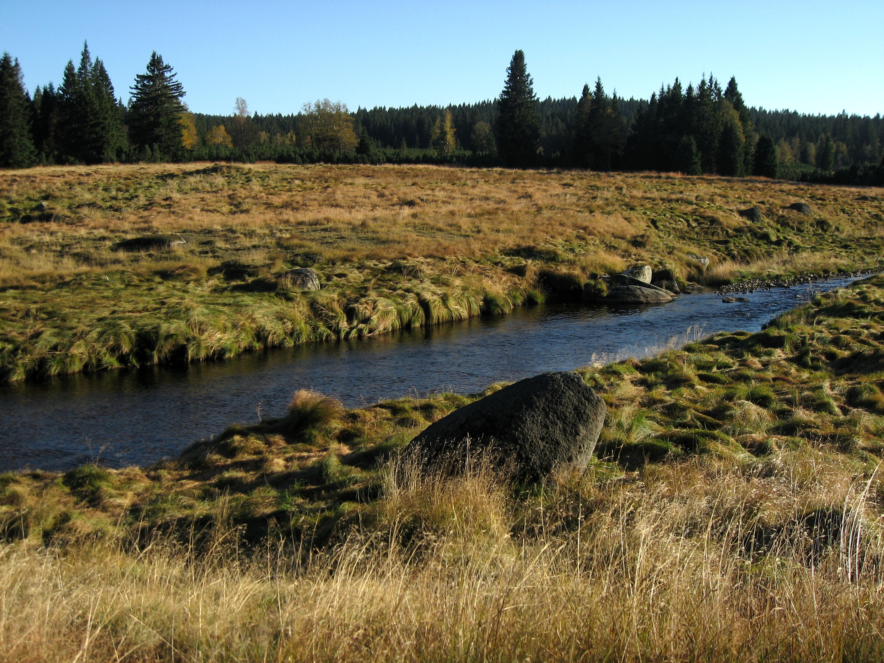 Modravské slatě, a group of bogs near czech village Modrava